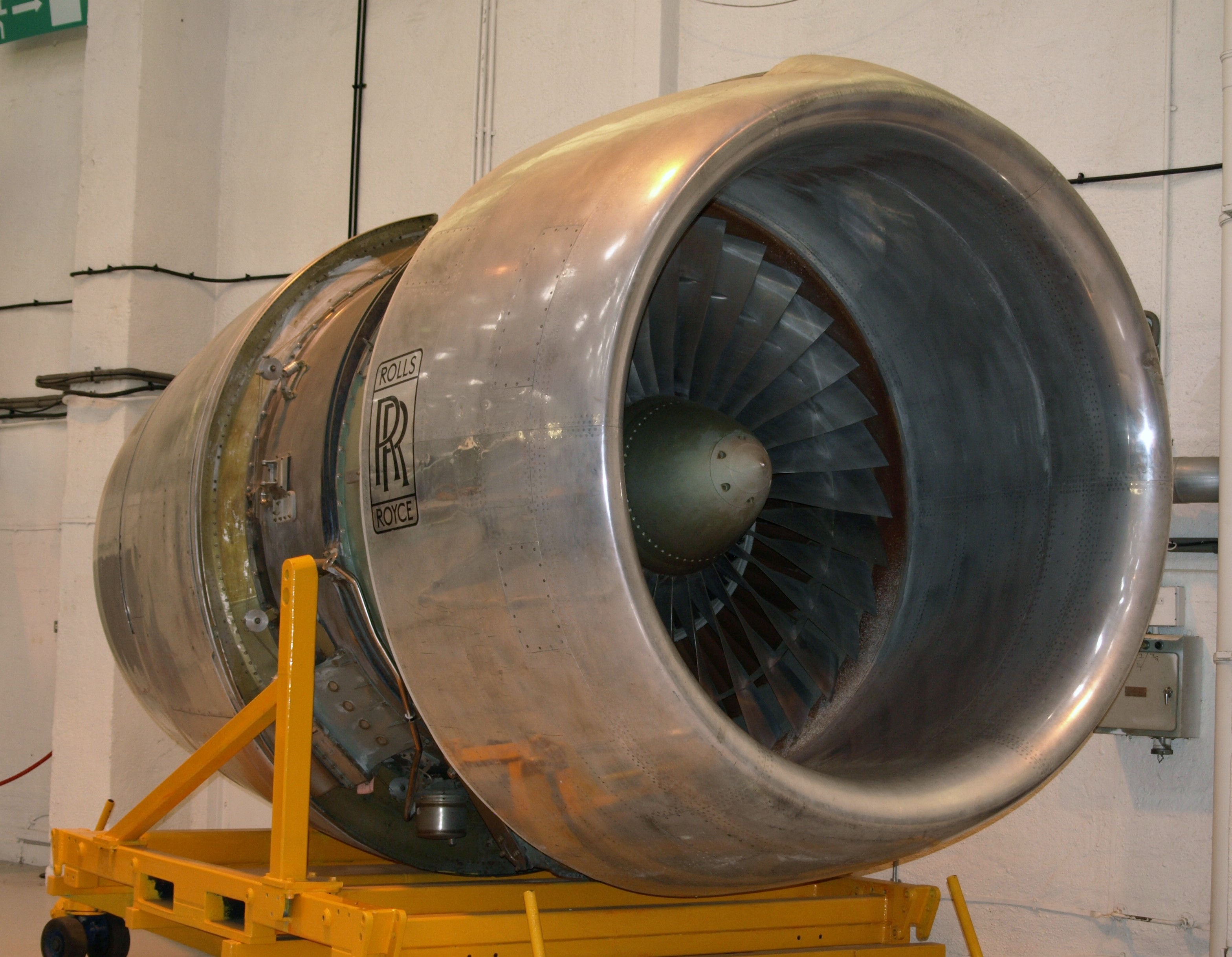 Rolls-Royce RB.211 22C turbofan engine at the Royal Air Force Museum, Cosford.